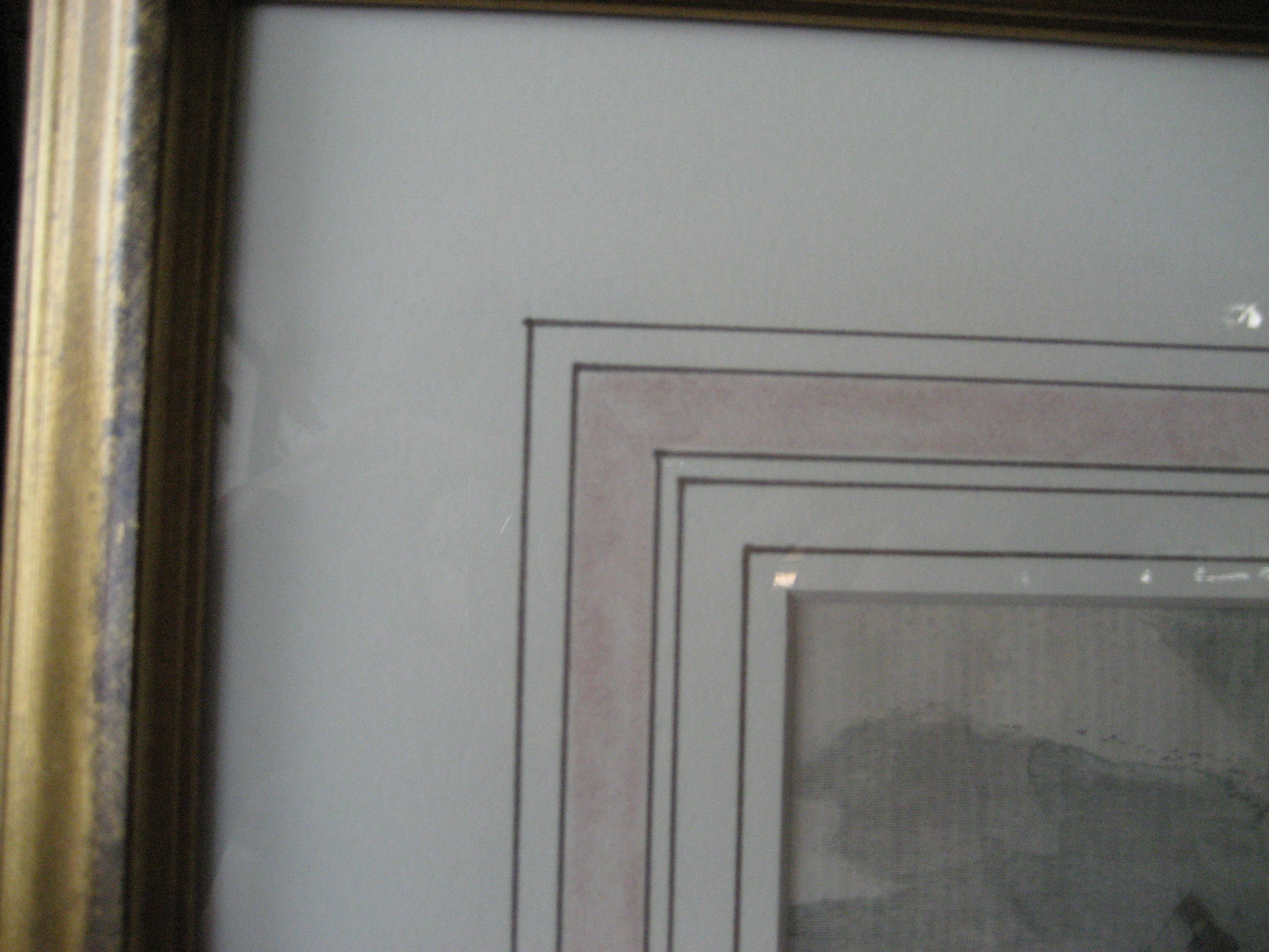 A picture my family framed with French lines and French panel on mats.